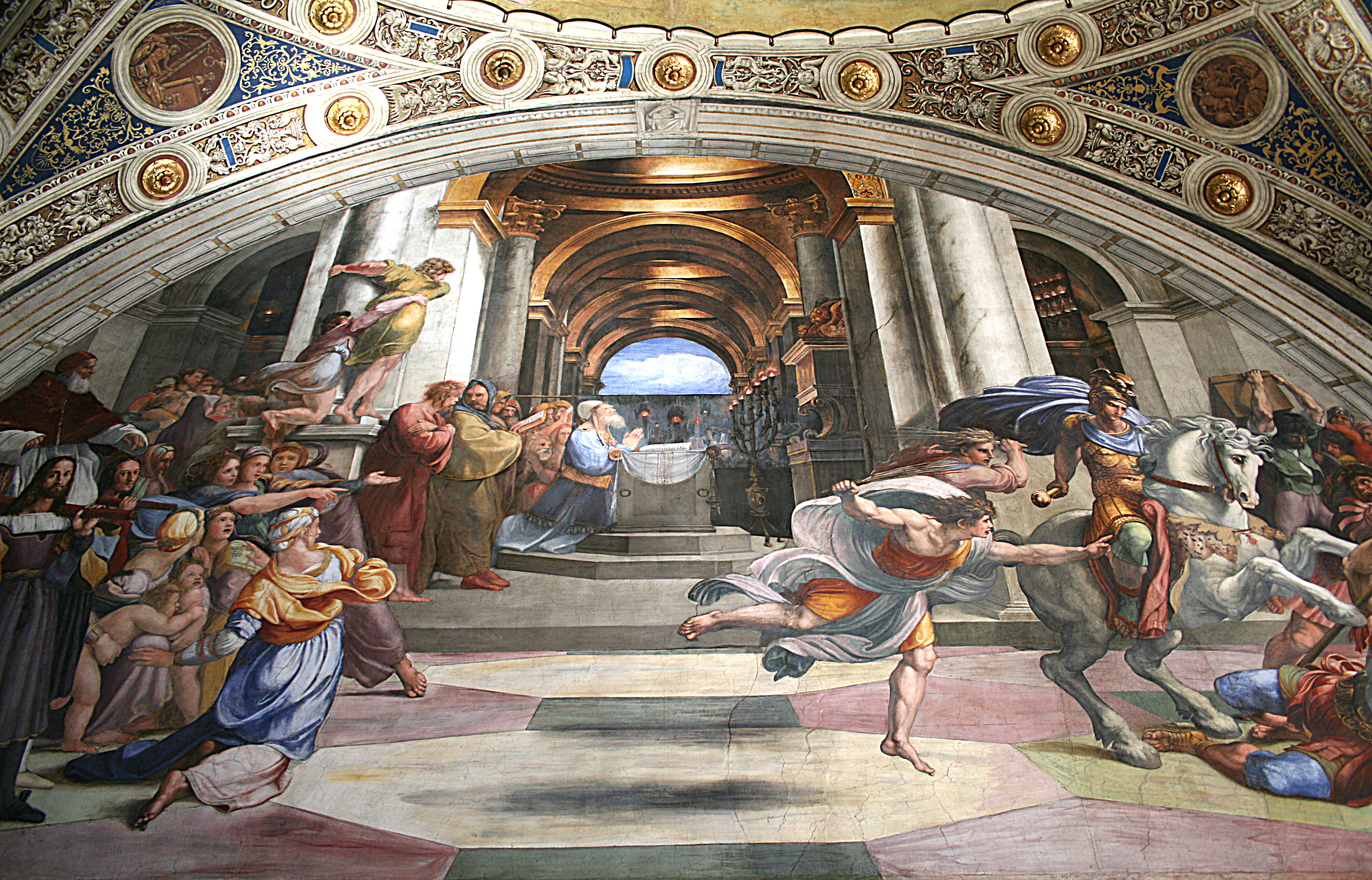 Monumental fresco done by Raphael for Vatican Palace to Rome.